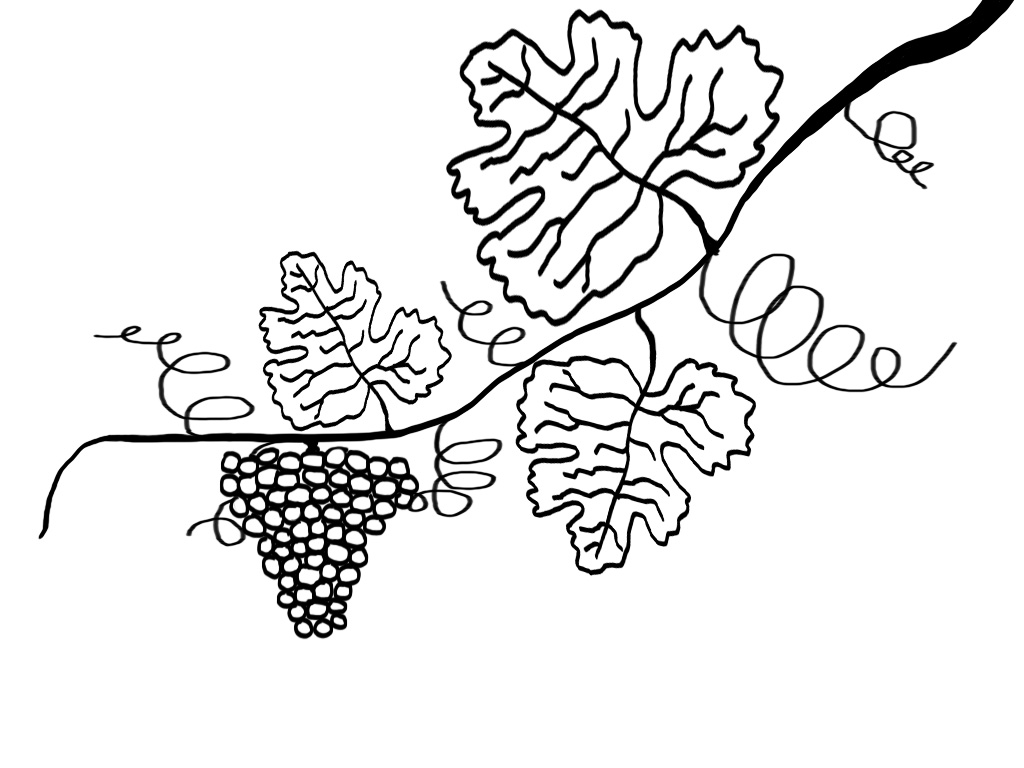 Symbole doctrine spirite